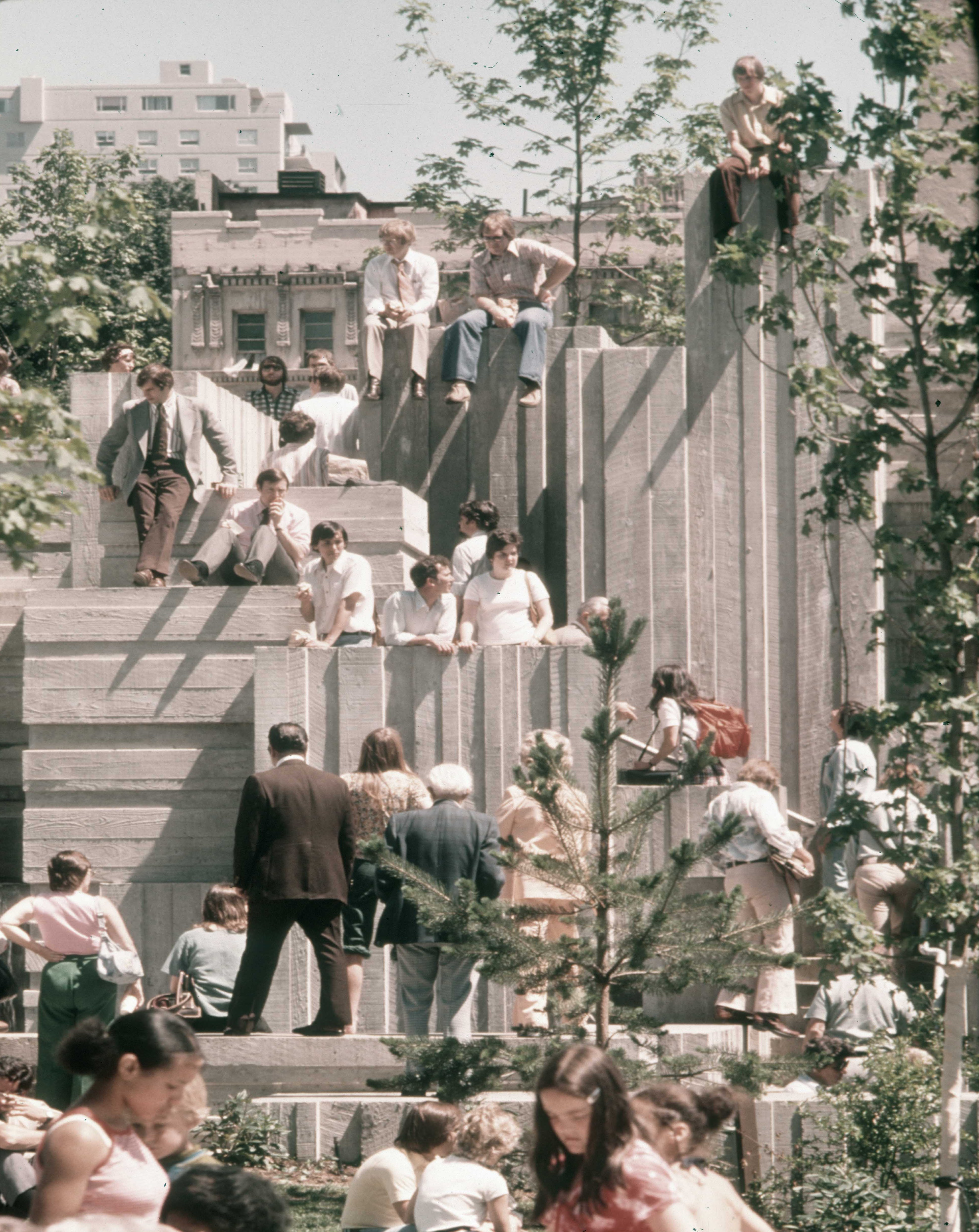 Freeway Park, Seattle, Washington, probably in the 1970s. Item 77770, Forward Thrust Photographs (Record Series 5804-04), Seattle Municipal Archives.